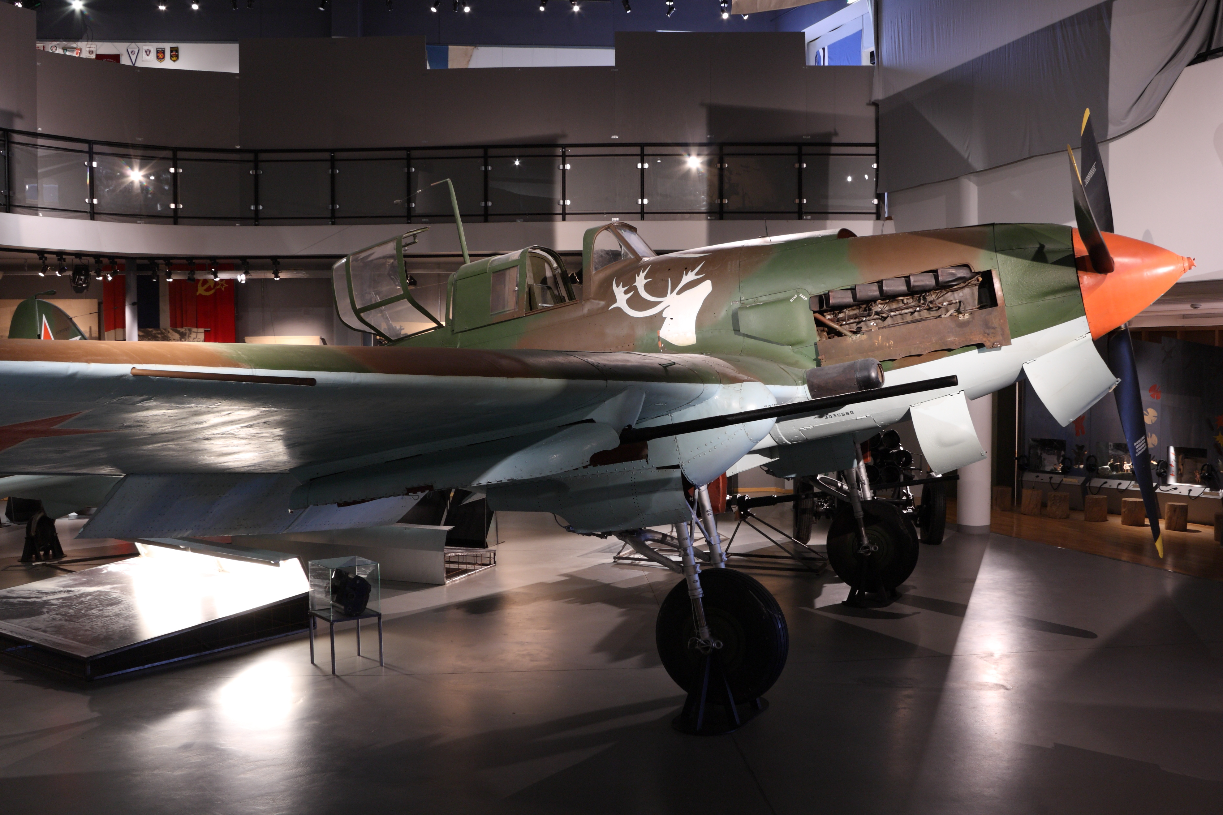 Ilyushin (Il-2?) at Sør-Varanger museum in Kirkenes, Norway. This plane crashed in the Sennagress Lake 1944-10-22, was lifted in 1984, and was restored by Russians. (Source: the information leaflet at the museum.)